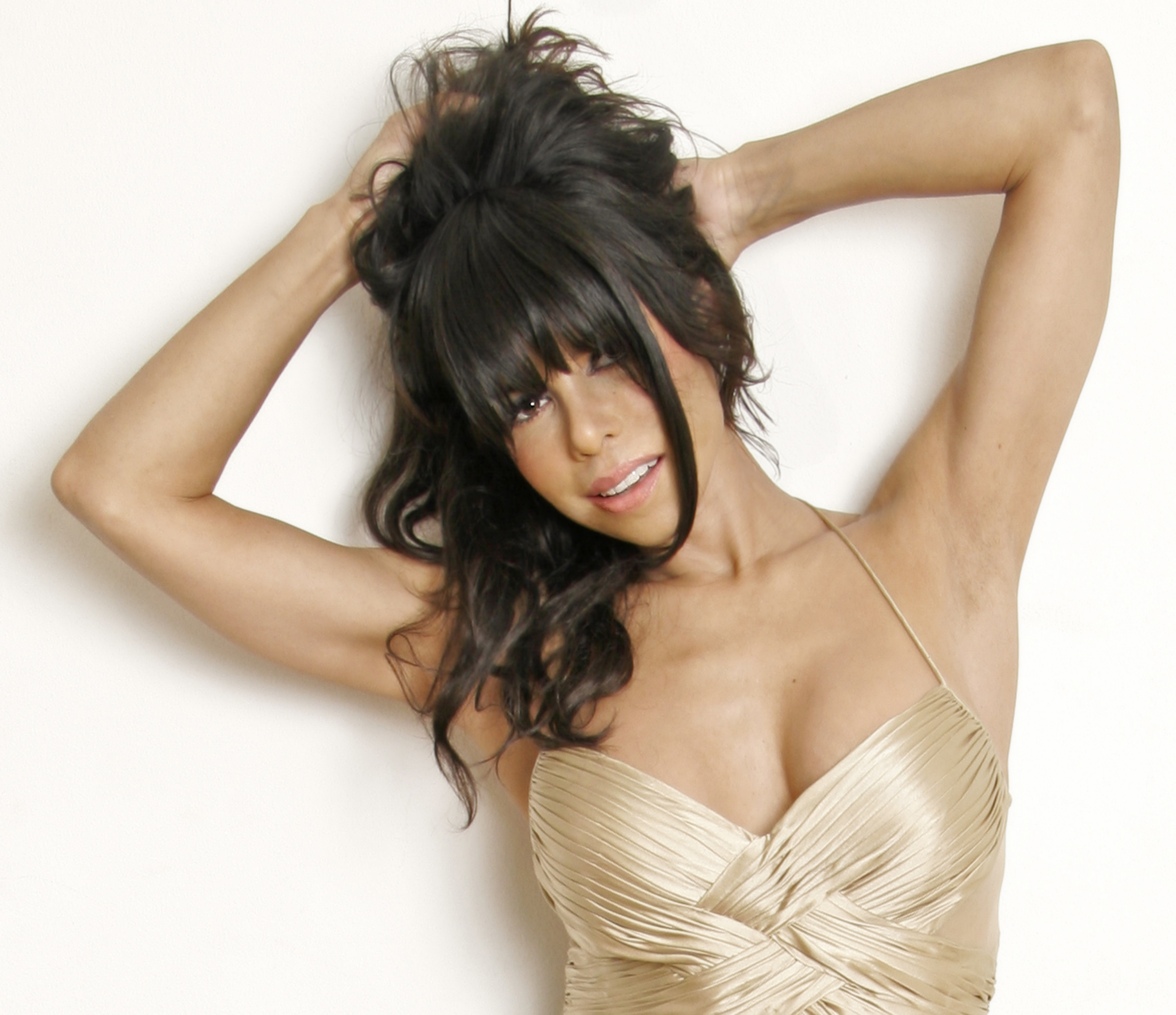 This is the photo of actress Tammy Hansen Grady